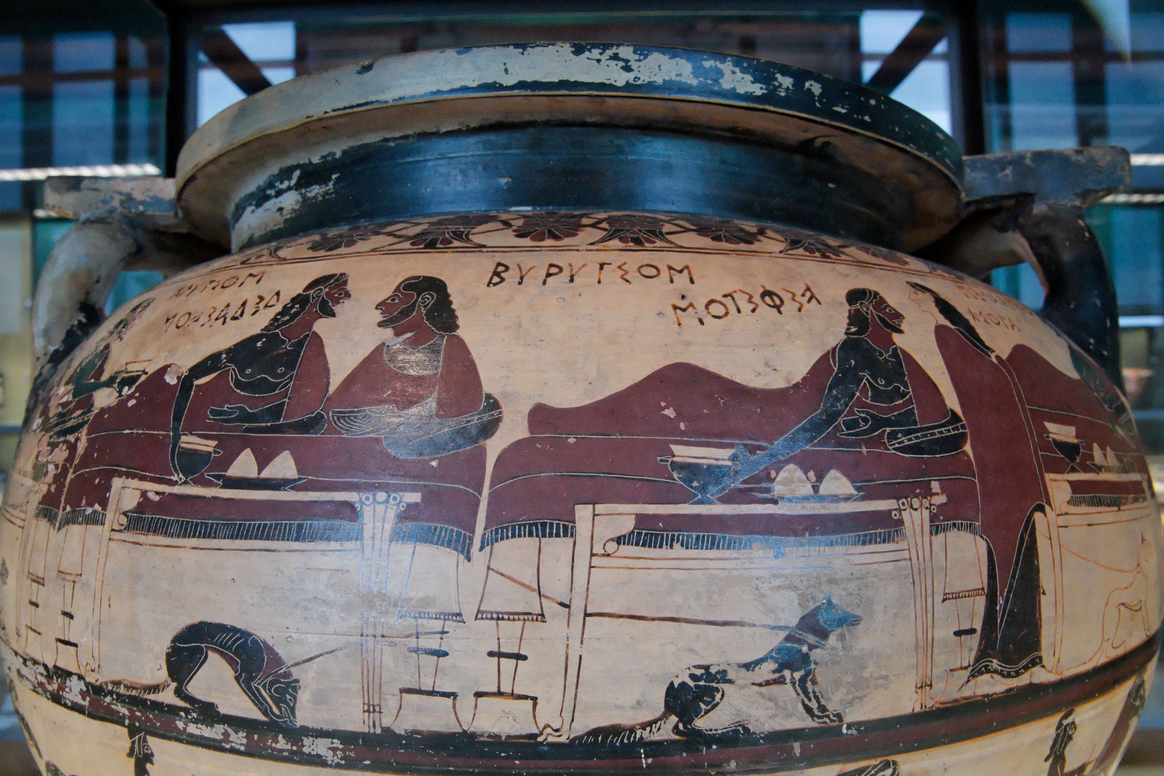 Eurytios and Herakles at symposium. Upper tier, side A of the so-called Eurytios Krater, a Corinthian column-krater, ca. 600 BC. From Cerveteri.